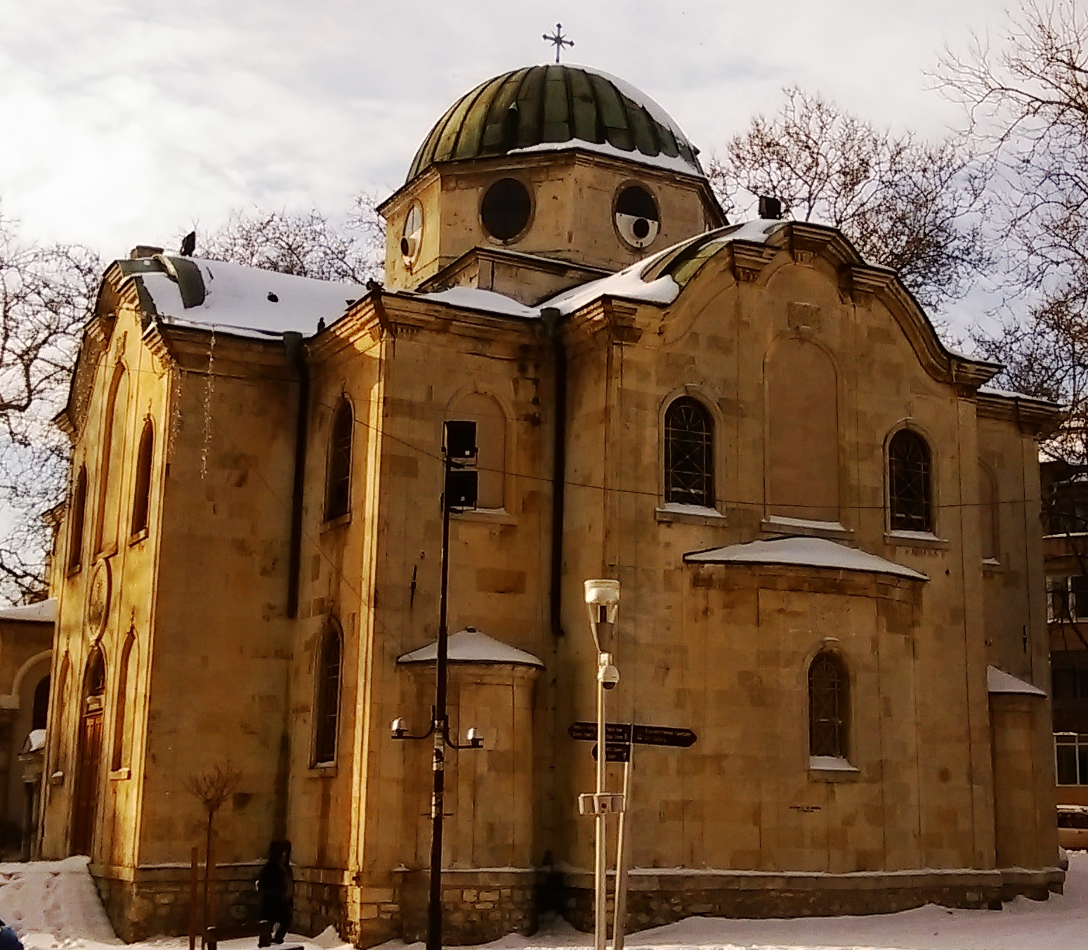 St Nikolai Orthodox church in Varna, Bulgaria